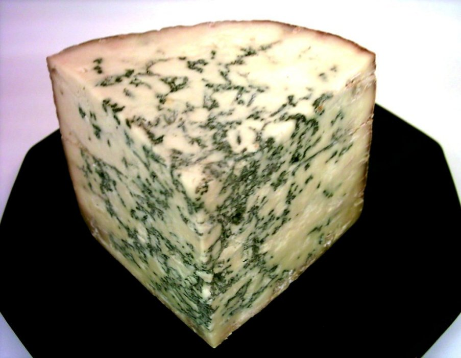 Blue Stilton PDO Cheese, one quarter of a half loaf